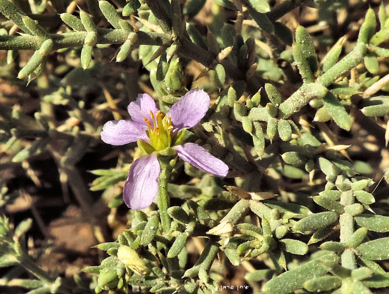 Fagonia glutinosa - Timna פגוניה דביקה, ליד עמודי שלמה